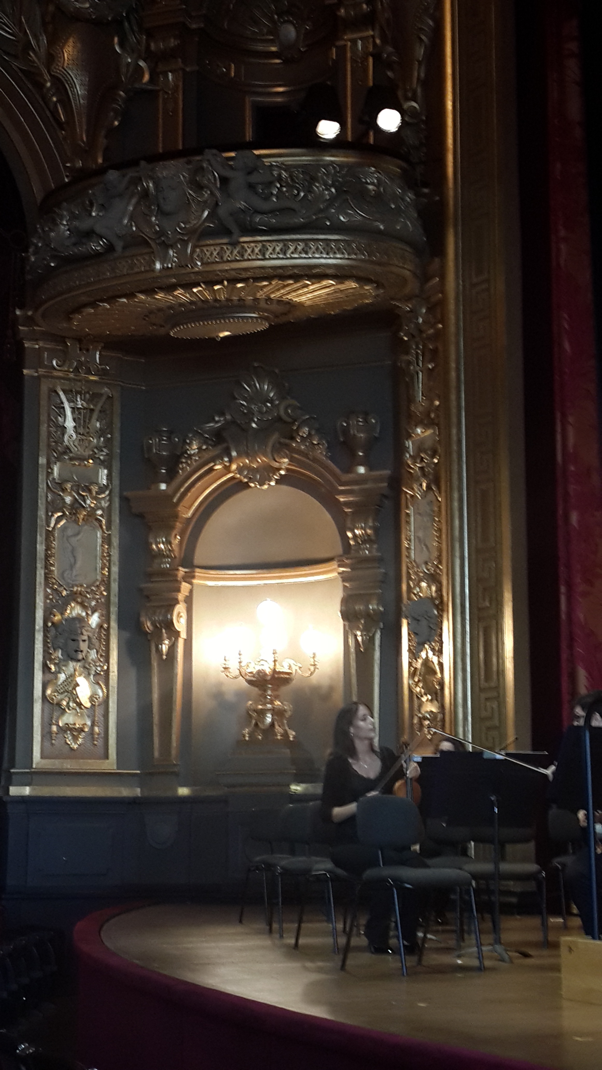 Opéra de Monte-Carlo-Salle Garnier